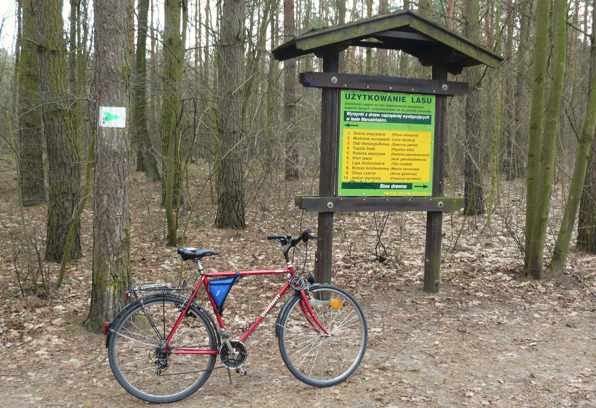 Marceliński Forest in Poznań, Poland. Diamant bicycle.